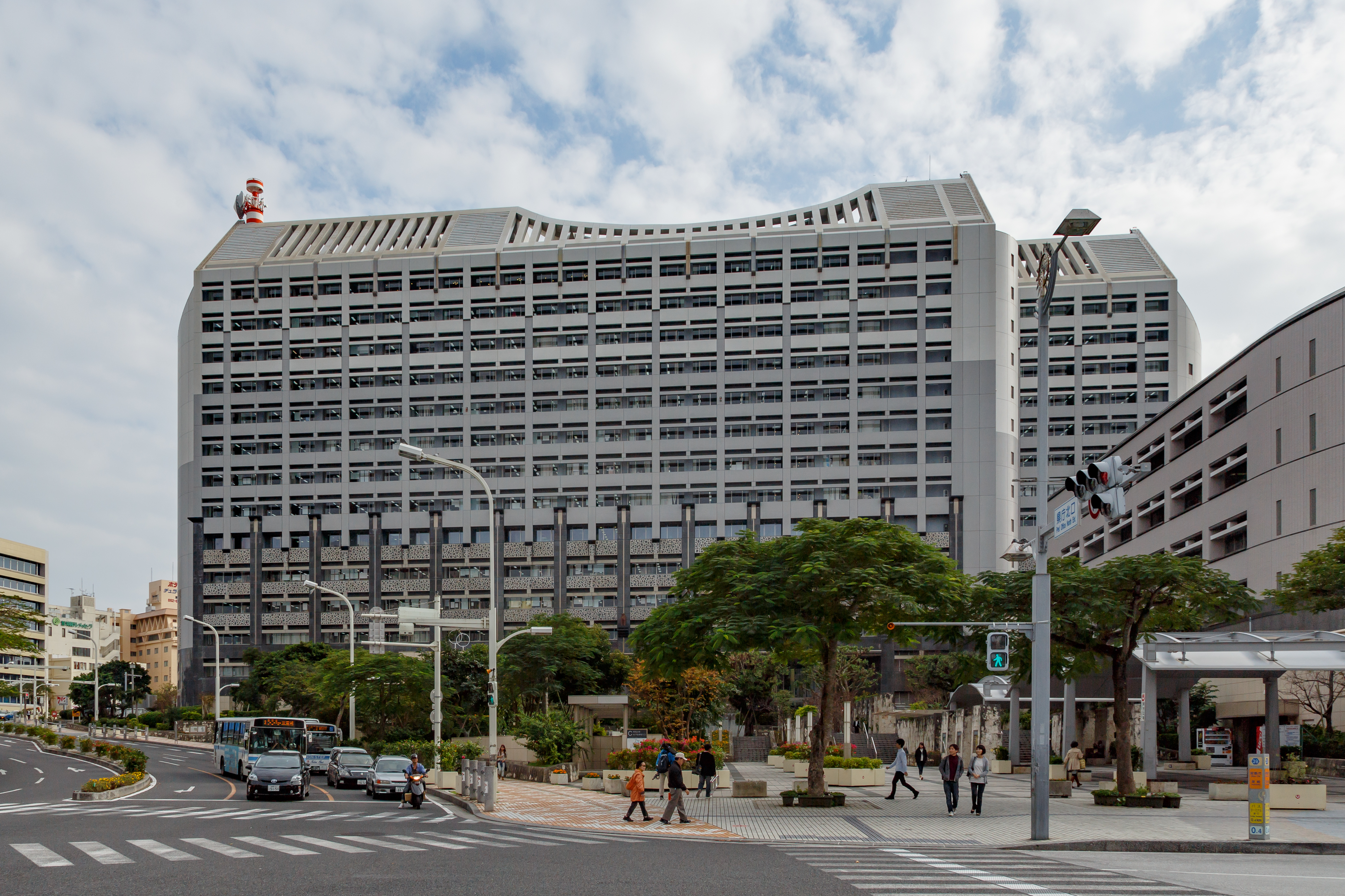 Naha, Okinawa, Japan: Okinawa Prefectural Government Headquarters.